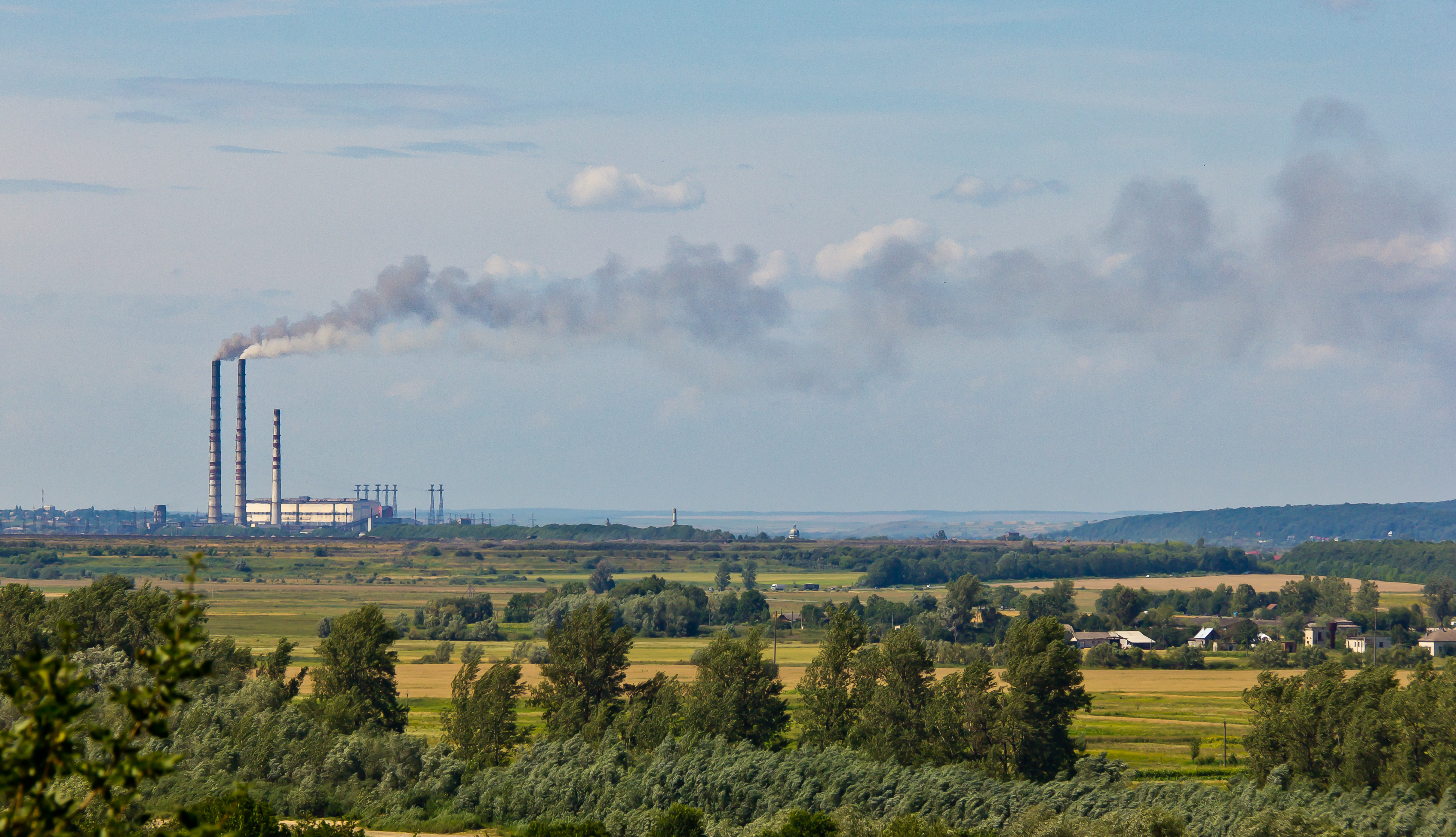 Power plant Burshtyn TES, Ivano-Frankivsk Oblast, Ukraine